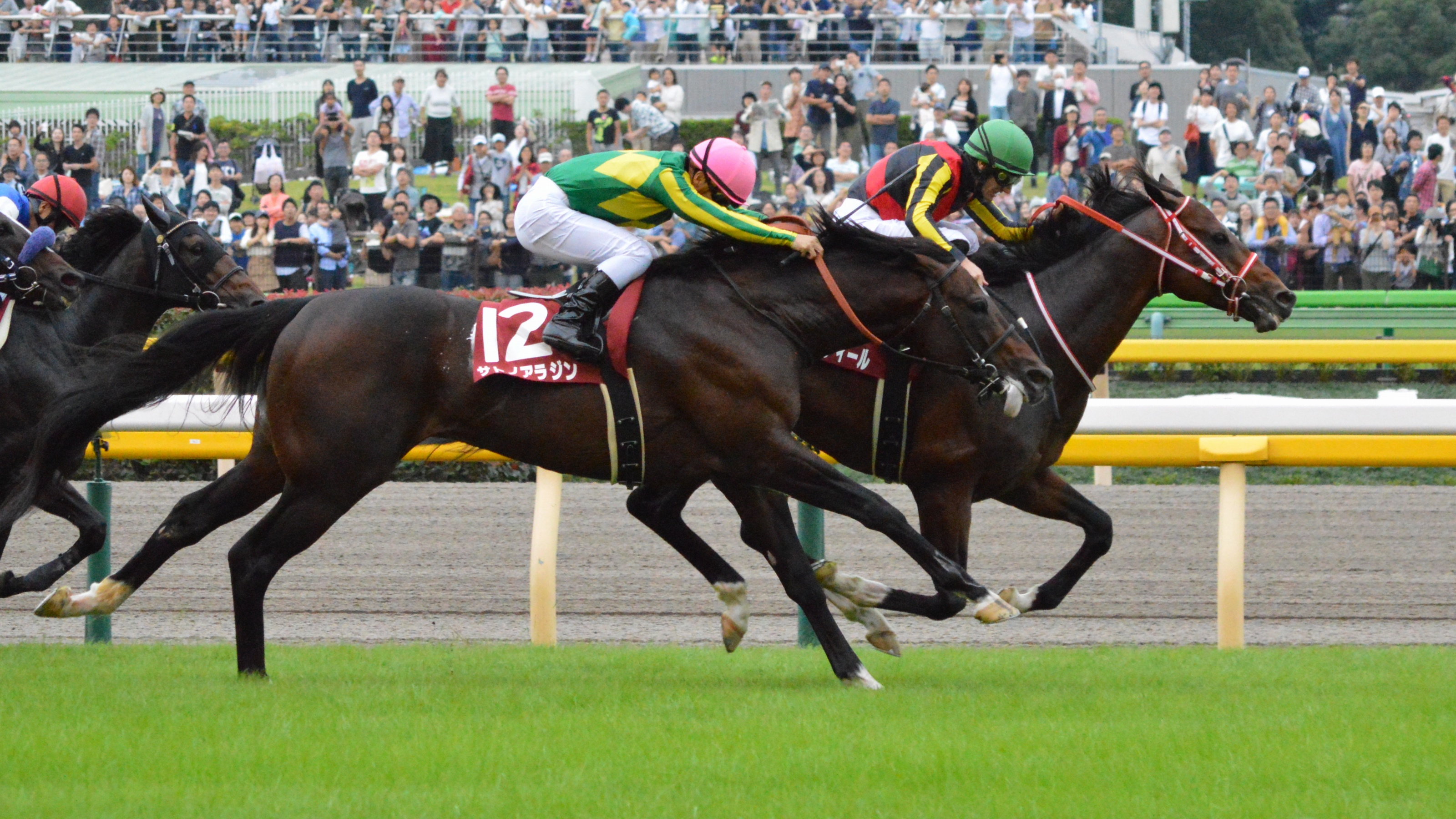 Japanese race horse Real Steel at Tokyo racecourse. Tokyo (JPN) 08 Oct 2017Mainichi Okan (Grade 2) (3yo+) (Turf) 1m1f Firm RankHorse NameOddsAgeWgtJockeyTrainer1stReal Steel (JPN)48/10H59-0Mirco DemuroYoshito Yahagi2ndSatono Aladdin (JPN)77/10H69-2Yuga KawadaYasutoshi IkeeOthers are omitted. (12 horses entered in a race.)